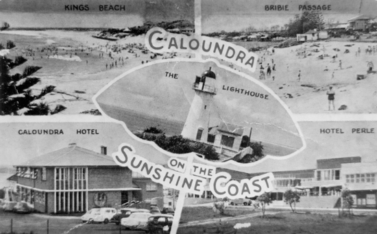 Caloundra on the Sunshine Coast postcard promoting the wonderful seaside town, ca 1950 Attractions featured on the postcard are Kings Beach, Bribie Passage, the Lighthouse, Caloundra Hotel and the Hotel Perle. Caloundra with its beautiful beaches and scenery was a popular tourist destination from the early 1900's.